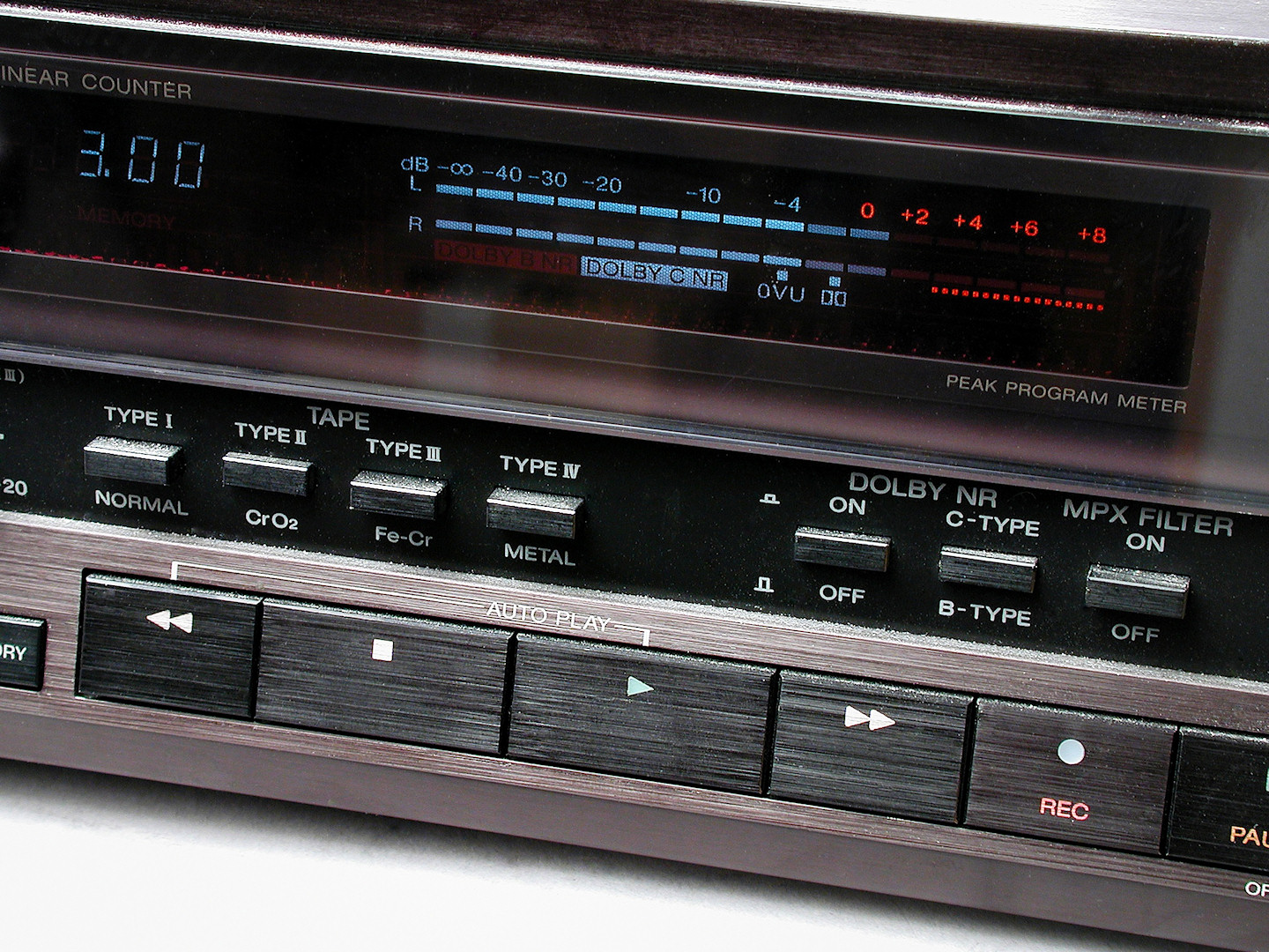 Manual tape and NR selector of a Sony cassette deck, most likely the 555ES (1983-1985).